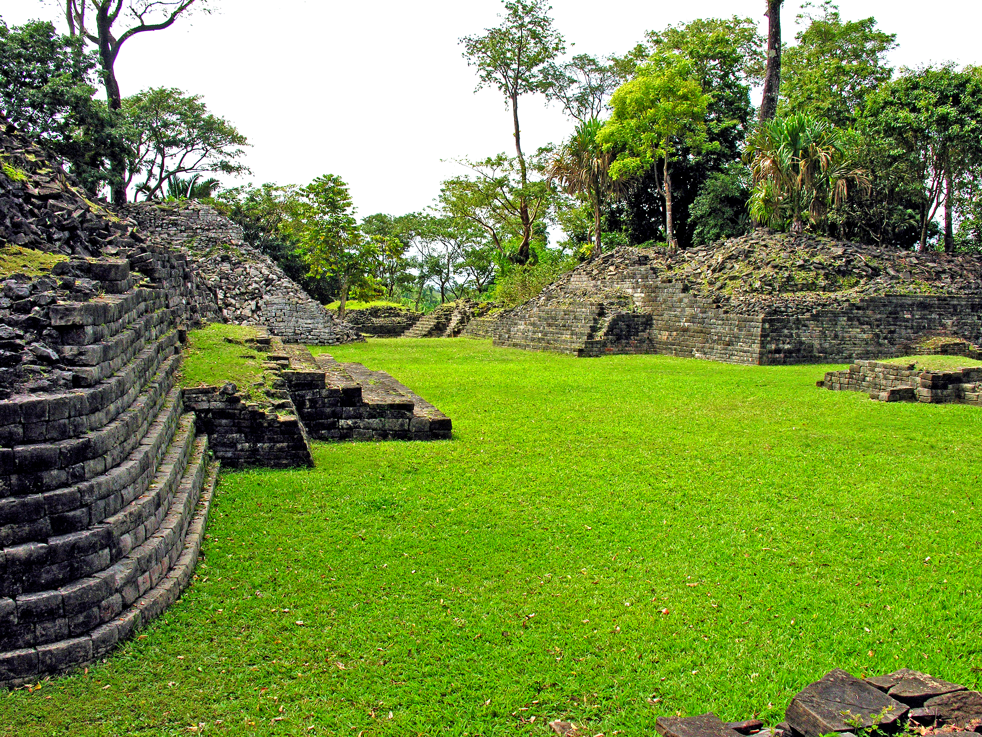 Last view looking down the center of the site.